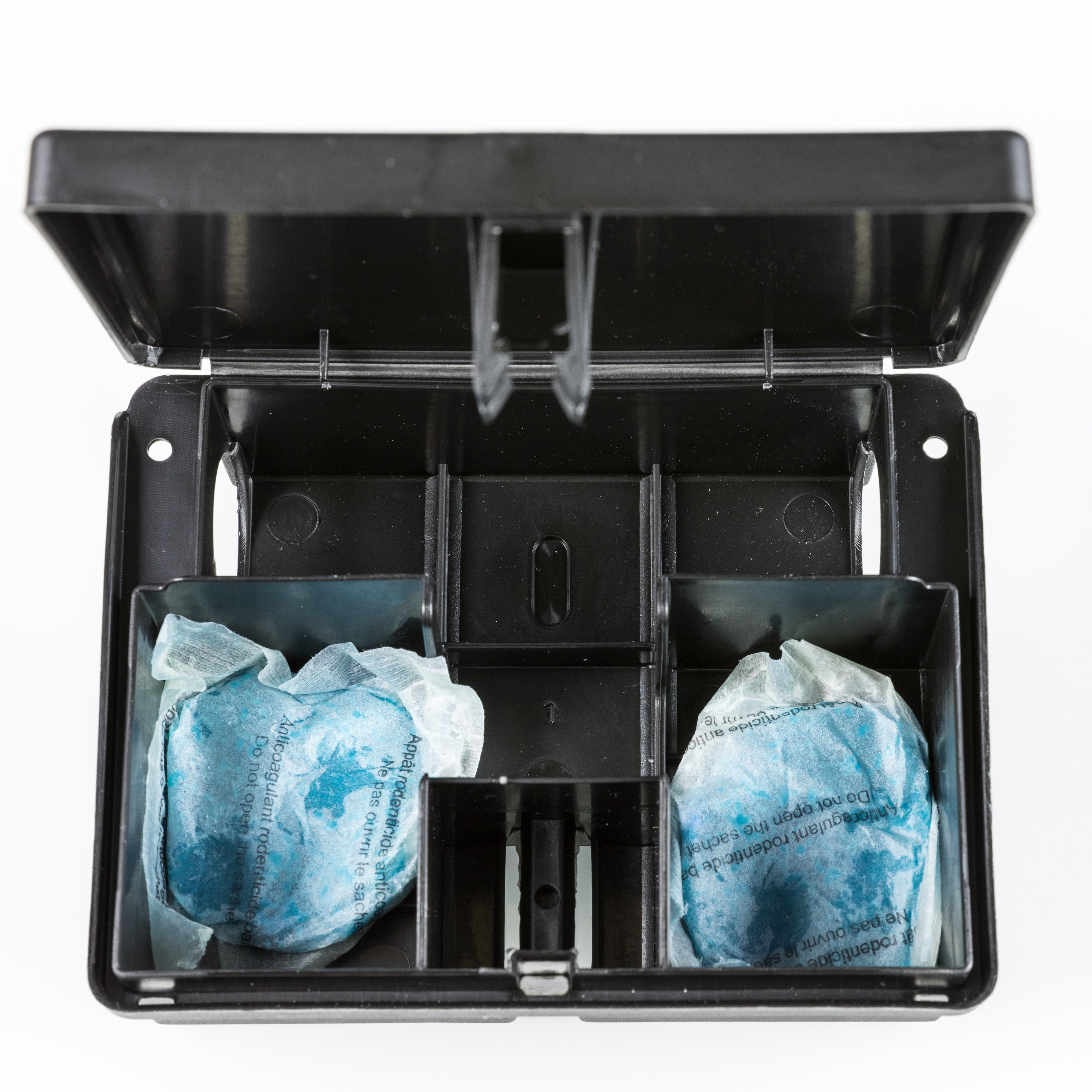 Baitbox for mice with Brodifacoum as poison